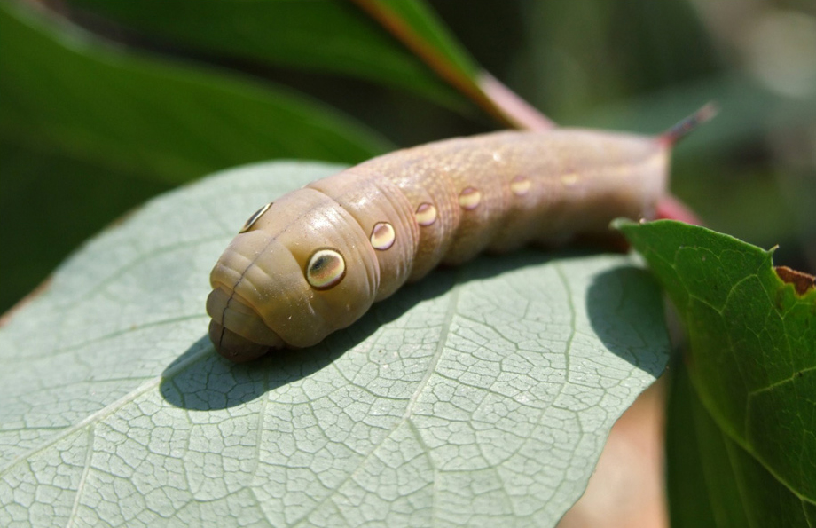 Crop